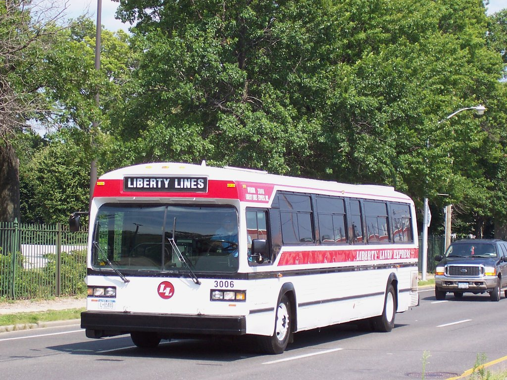 Museum bus Liberty Lines Express #3006 (MTA Bus #7825) retired and repainted into its prior branding leaving Belmont Park in Elmont, New York.